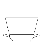 GIF - Lakaina